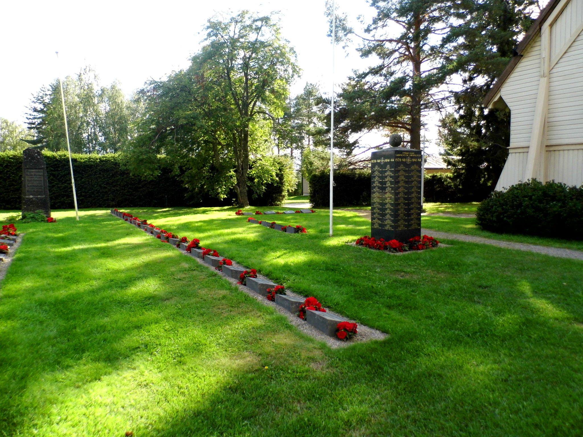 Military cemetary at church in Pyhäntä, Finland